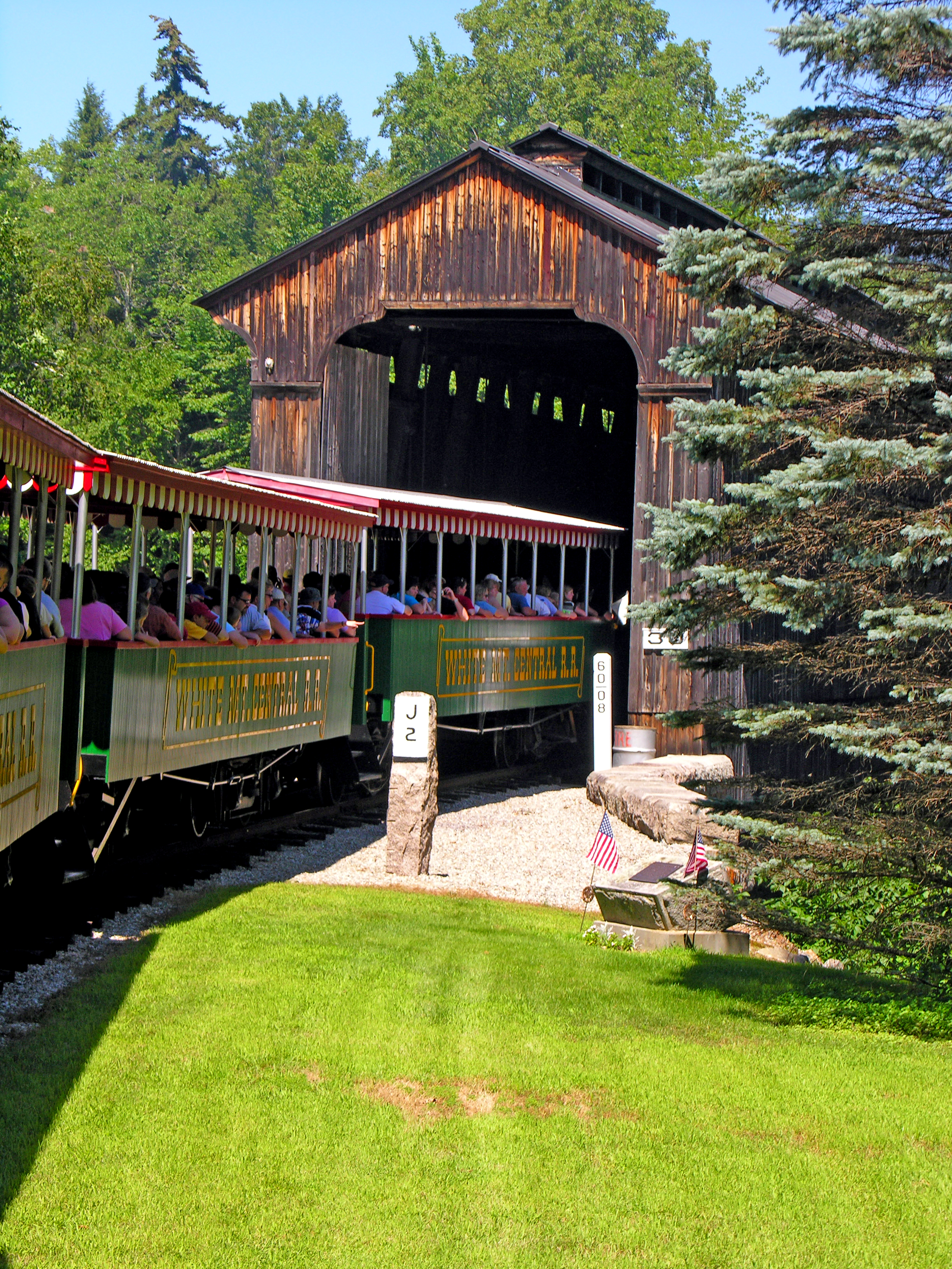 PLEASE, no multi invitations in your comments. DO NOT FEEL YOU HAVE TO COMMENT.Thanks. In 1963, with his two teenage sons and a dedicated crew in tow, Edward M. Clark dismantled a 1904 Howe-Truss railroad covered bridge in East Montpelier, Vermont. The team then transported the structure and reassembled it to span the mighty Pemigewasset River adjacent to the Trading Post grounds. A monumental accomplishment, the bridge is the world’s only standing example.